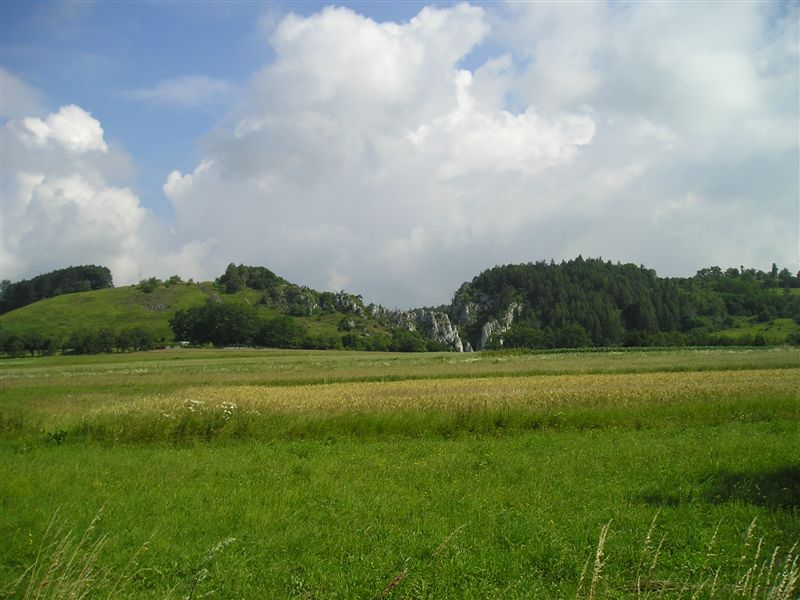 author macieias